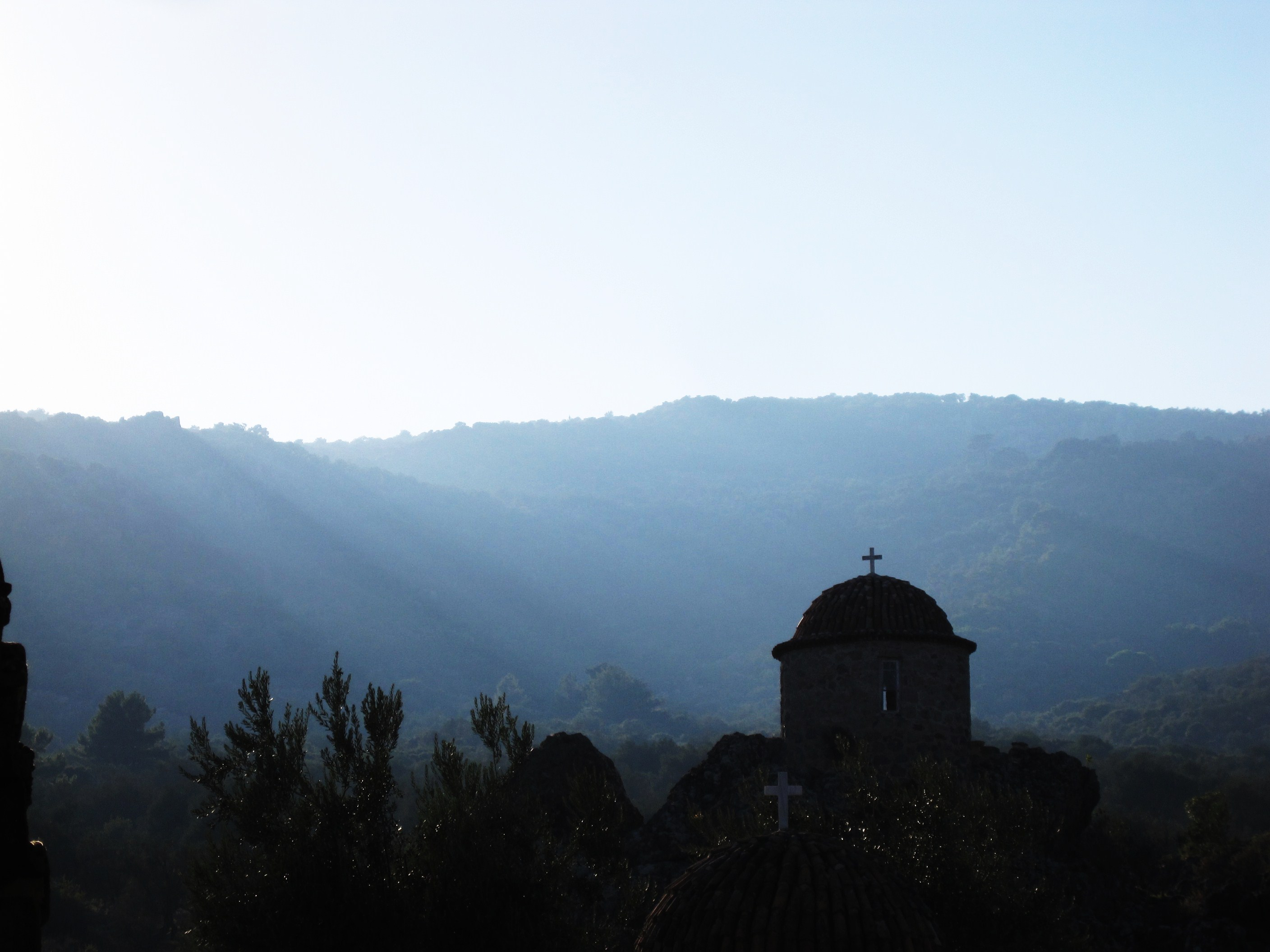 Limonas Monastery, Kalloni, Lesbos, Greece